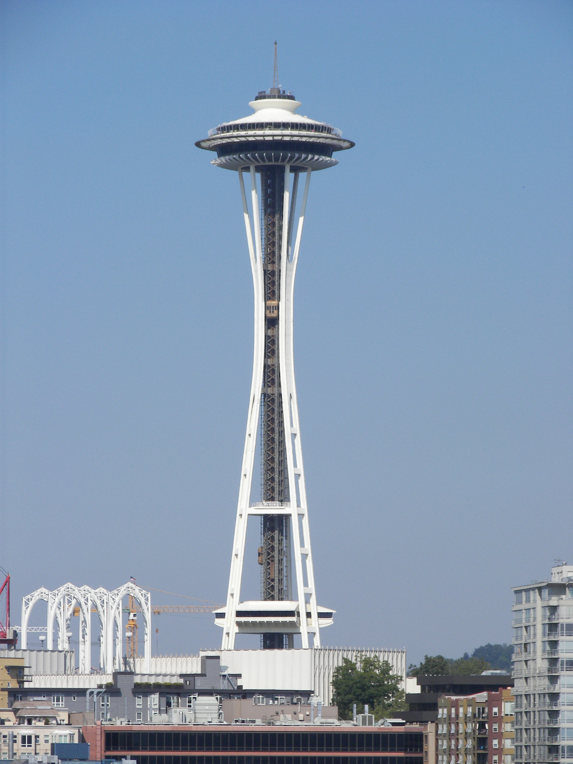 Space Needle from a ship near Pier 66, Seattle.